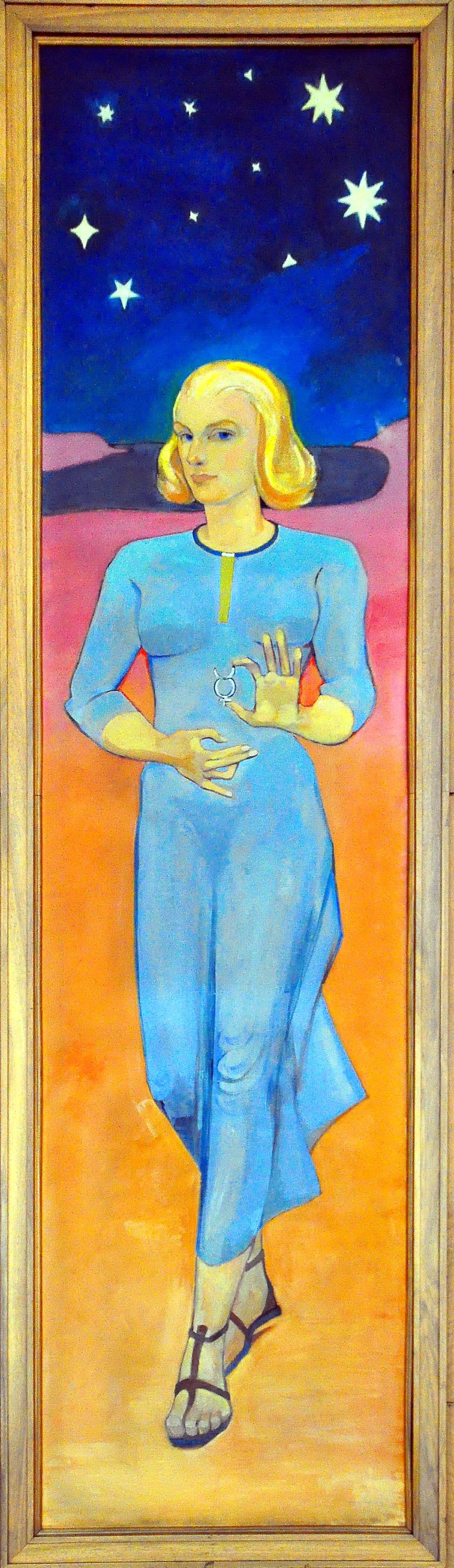 Wall painting